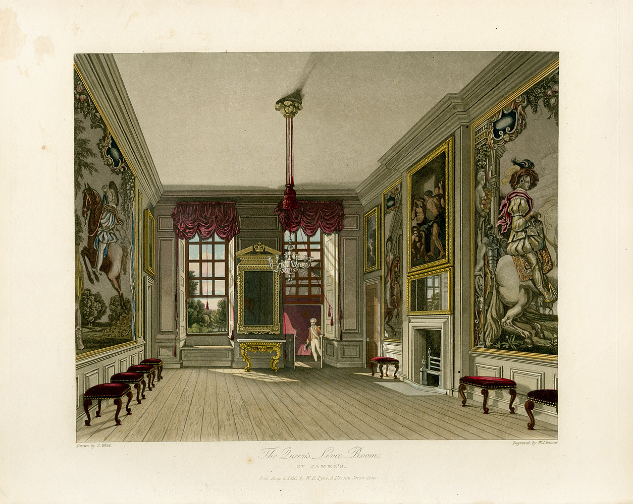 A view of the Queen's Levee Room at St James's Palace in London